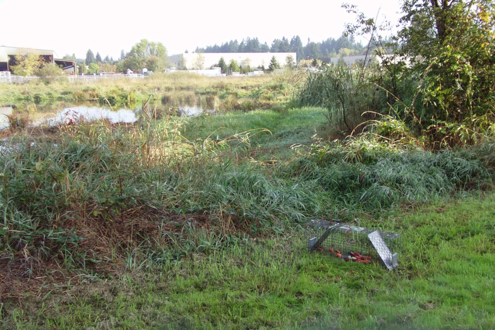 Image title: A trap for capturing nutria Image from Public domain images website